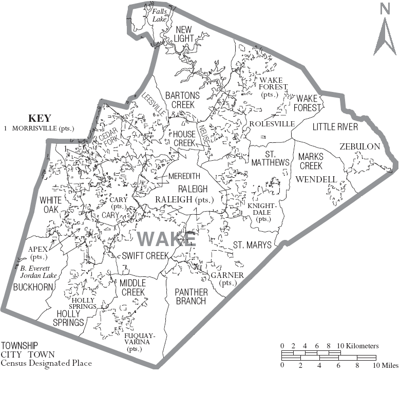 Map of Wake County, North Carolina, United States with township and municipal boundaries